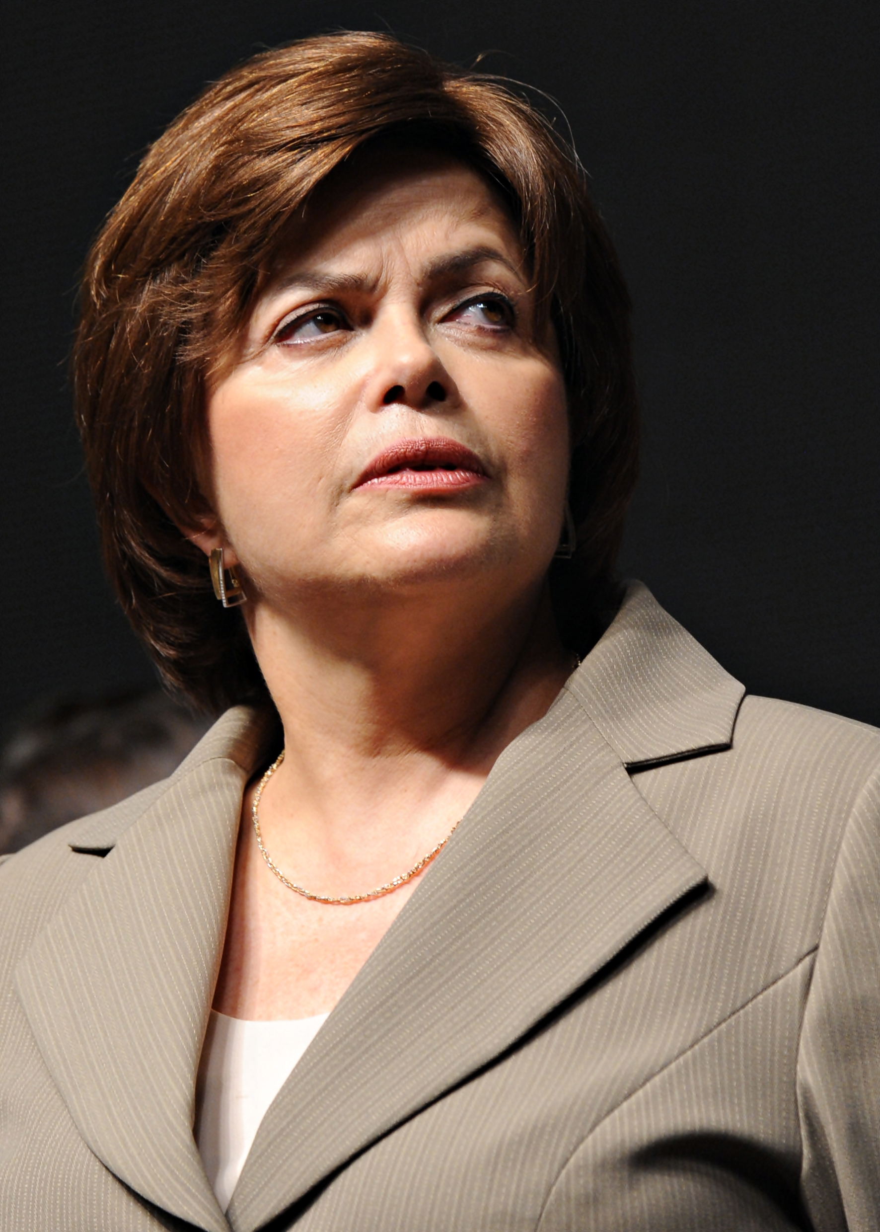 Dilma Rousseff, minister chief of staff of the Presidency of the Federative Republic of Brazil.